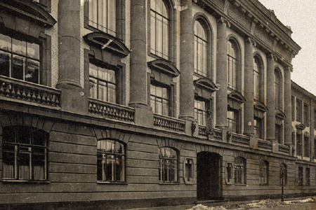 Facade of Second Saint-Petersburg Gymnasium, 1913 year.